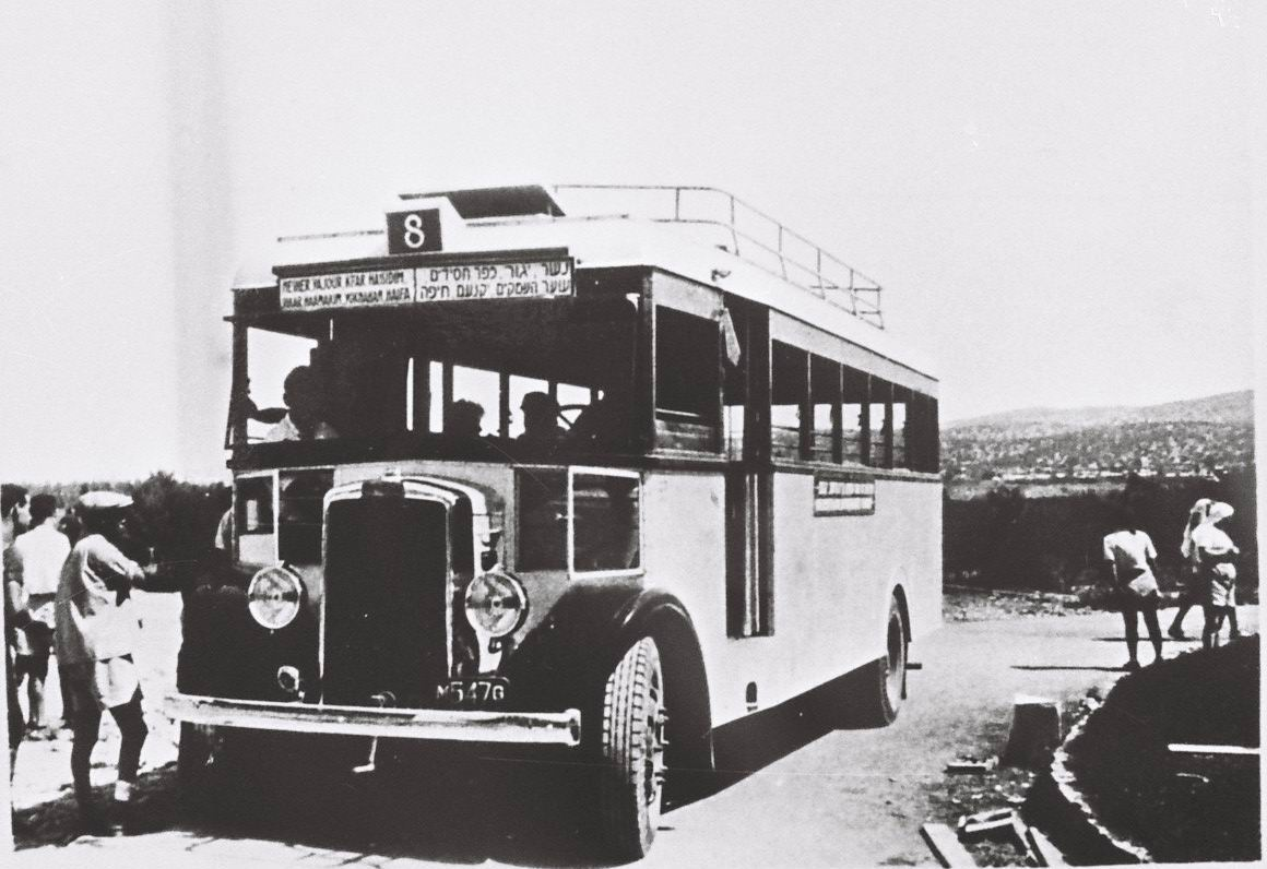 Settlements in Israel